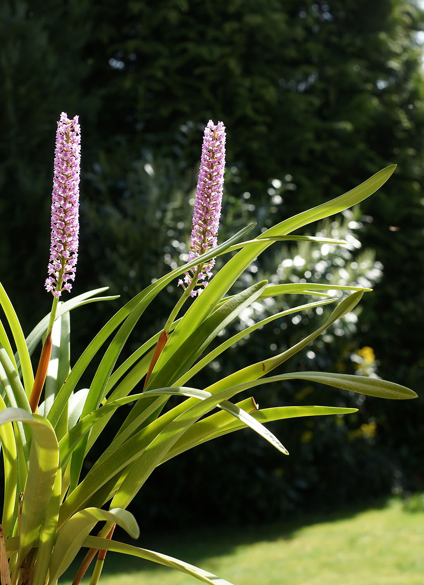 Arpophyllum spicatum